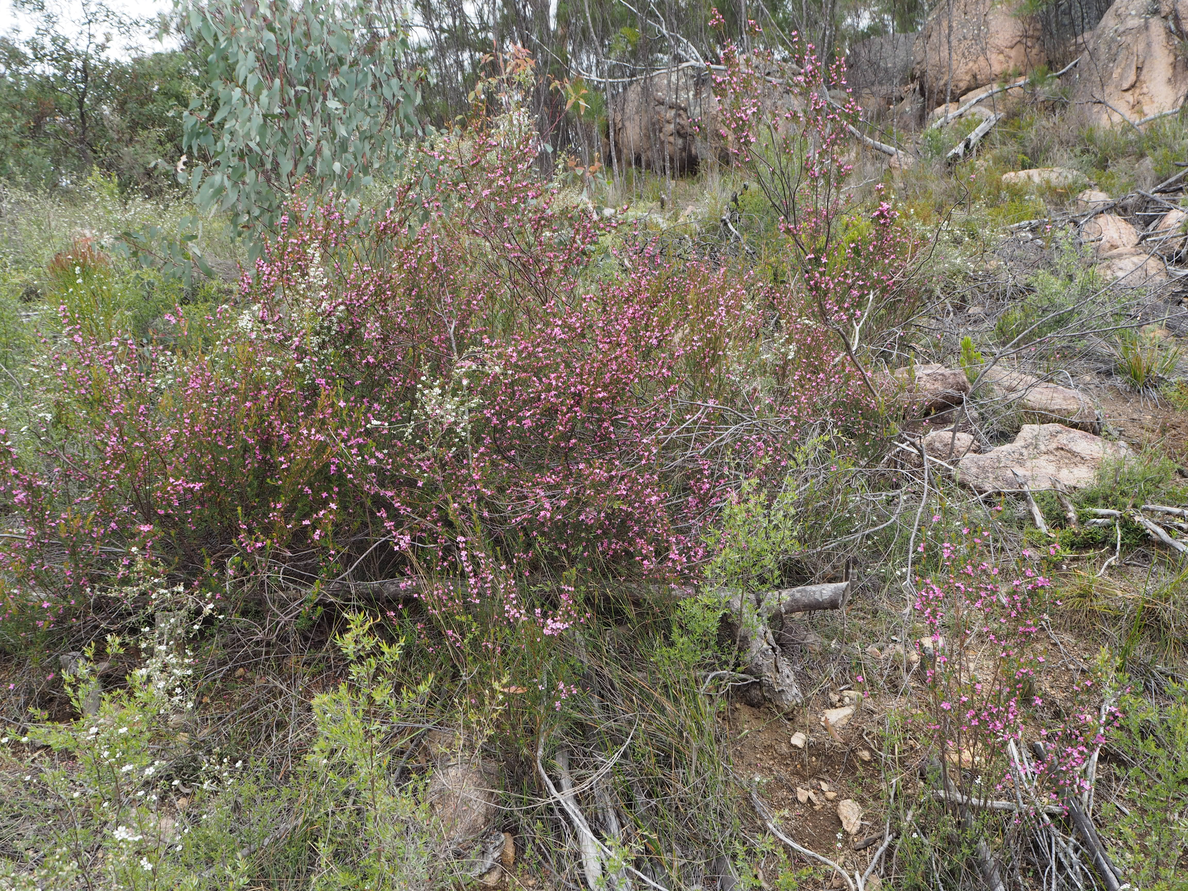 Boronia boliviensis growing in the Bolivia Hill Nature Reserve near the Peru Track